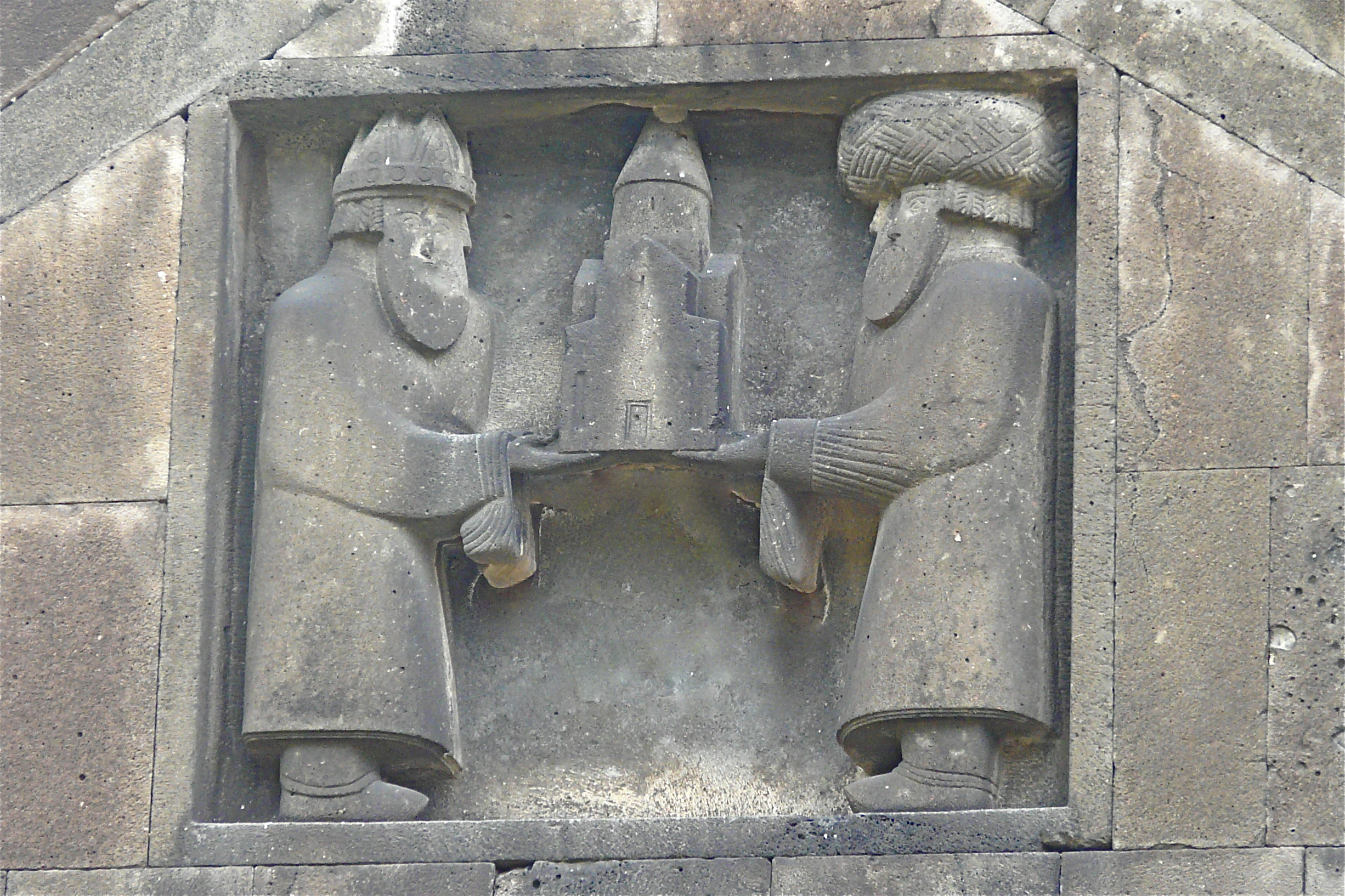 Het klooster van Hagpat. Heel afgelegen aan het einde van de Debedschlucht en de omringende natuur. uit: Haghpat (Armenian: Հաղպատ; also Romanized as Akhpat and Hakhpat) is a village in the Northern Lorri province of Armenia, close to the city of Alaverdi and the state border with Georgia. It is notable for Haghpat Monastery, a religious complex founded in the 10th century and included in the UNESCO World Heritage List along with monasteries in nearby Sanahin. The monastery is an outstanding and magnificent example of medieval Armenian architecture that has been attracting increasing numbers of tourists.